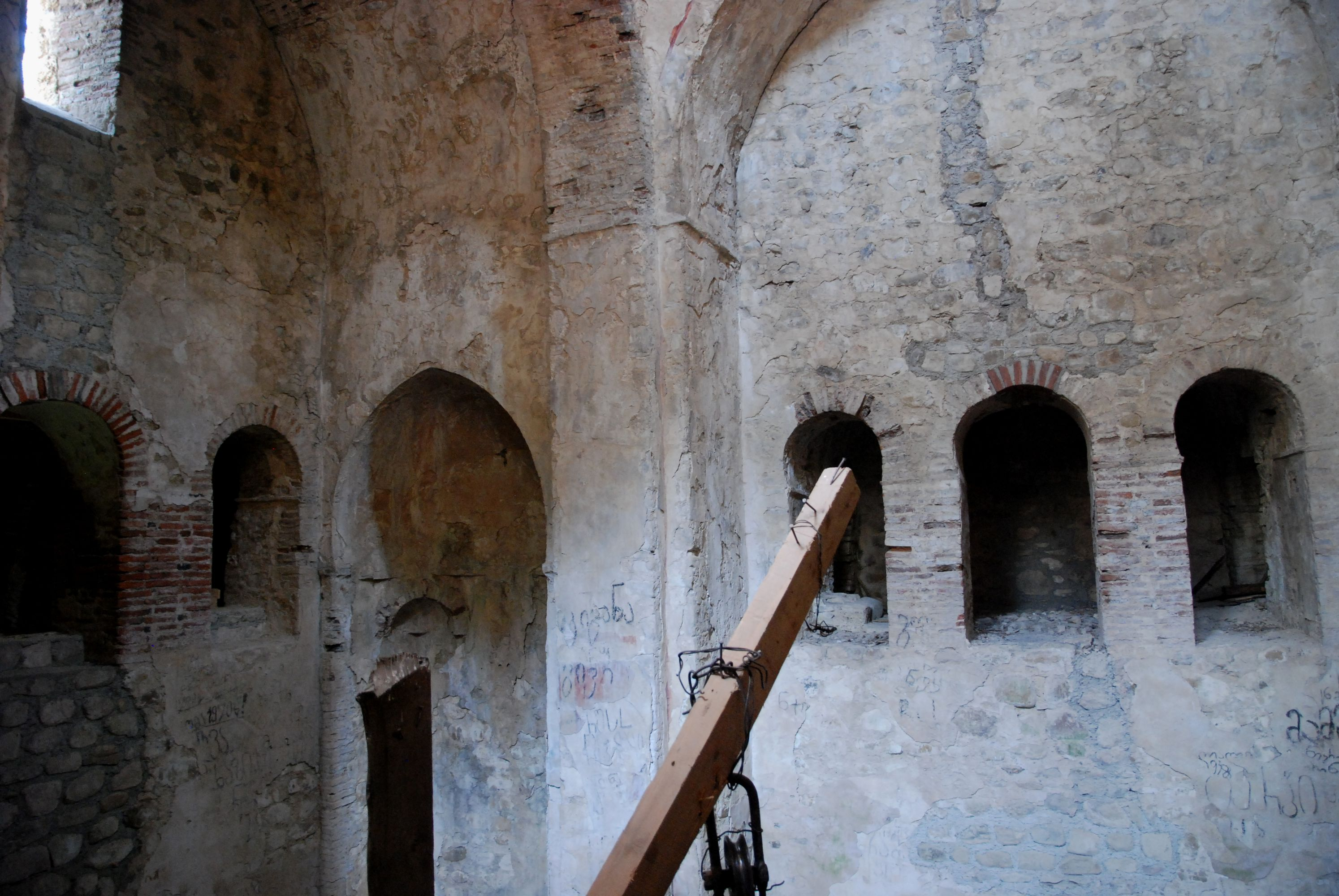 Vachnadziani Kvelatsminda, monastery church neasr Gurjaani